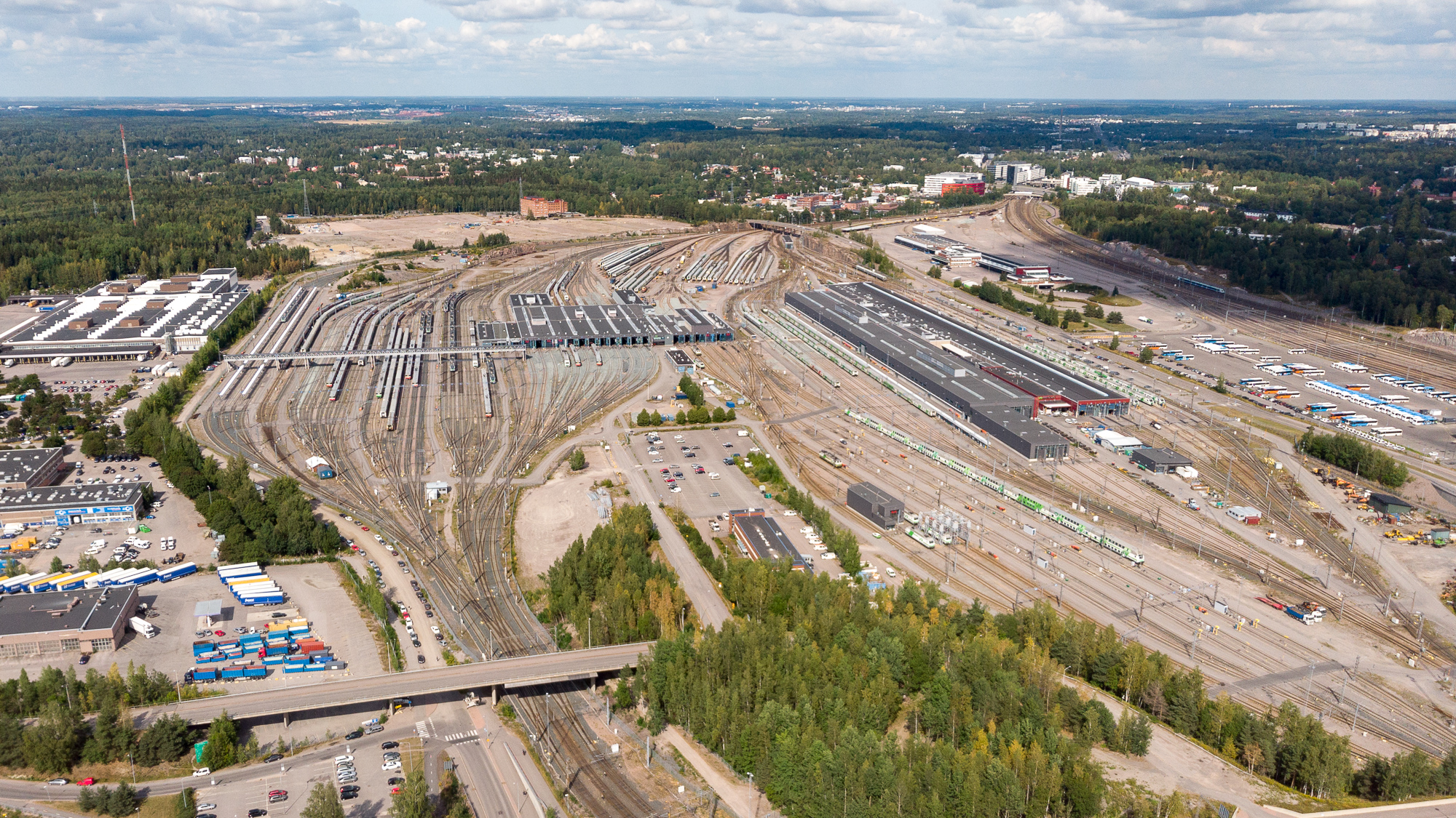 Ilmala depot